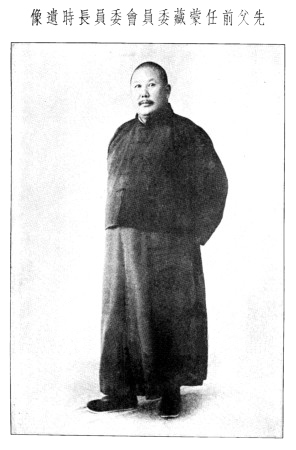 Qing dynasty,and later Republic of China Chinese muslim General Ma Fuxiang. Was a member of the Kuomintang. Born in 1876, died in 1932.